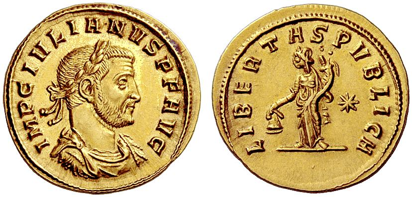 Julian I of Pannonia, October 284 – early 285, Aureus, Siscia circa 284, AV 4.24 g. IMP C IVLIANVS P F AVG Laureate, draped and cuirassed bust right. Rev. LIBERTAS PVBLICA Libertas standing left, holding pileus in right hand and cornucopiae in left; in right field, large star. C 3. RIC 1. Calicó 4413 (this coin).